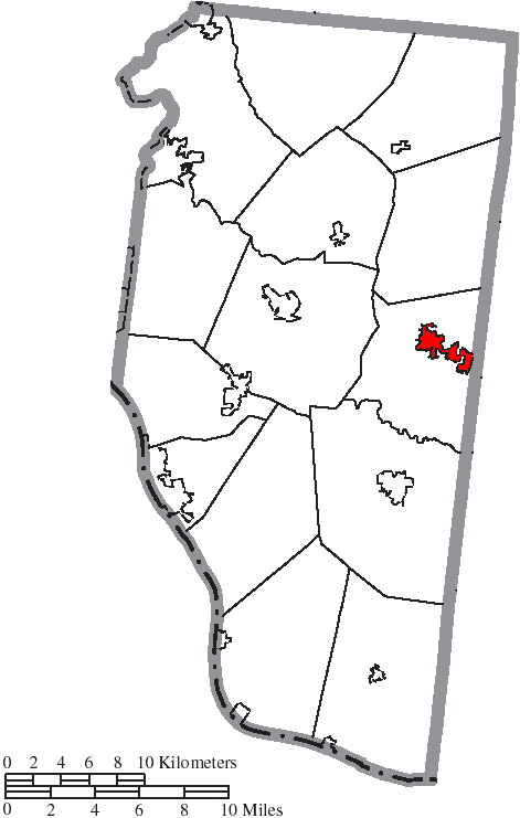 Map of the municipal and township boundaries of Clermont County, Ohio, United States, as of the 2000 census, with the location of the village of Williamsburg highlighted. Township borders are shown only in unincorporated areas in order to differentiate incorporated and unincorporated areas more clearly.